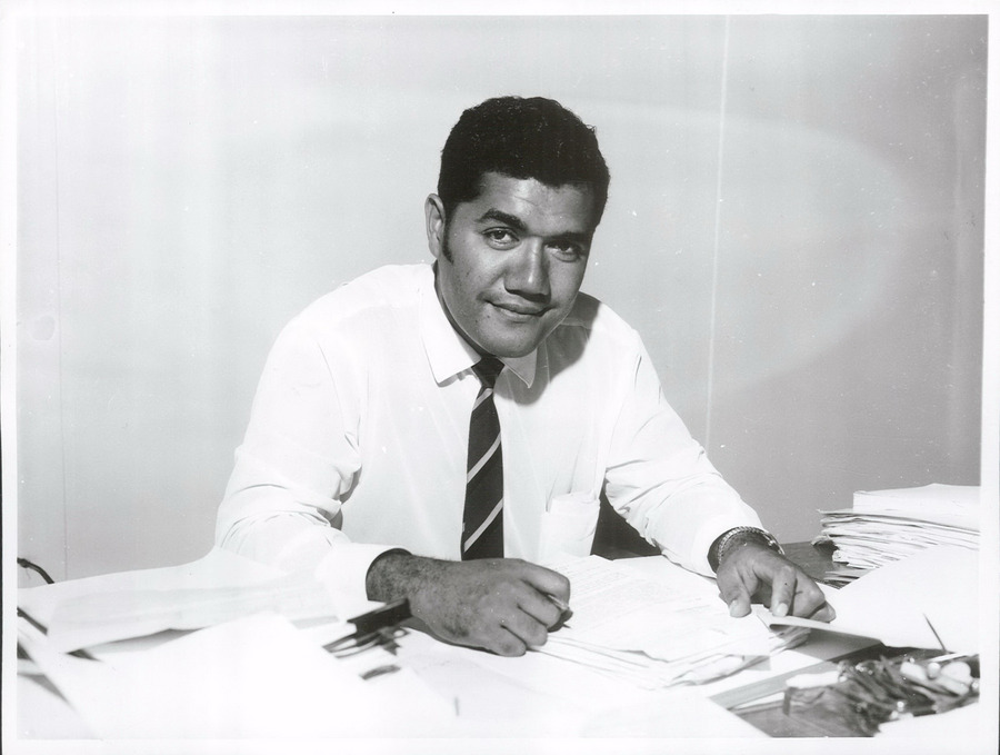 Title: Pacific Islands - Cook Islands - Rarotonga - Administration Publicity Caption: Rarotonga. Minister of Health, Honourable Inatio Akaruru. Photographer: W. Cleal Archives New Zealand reference: AAQT 6539/103 A93647 Material from Te Rua Mahara o te Kāwanatanga Archives New Zealand